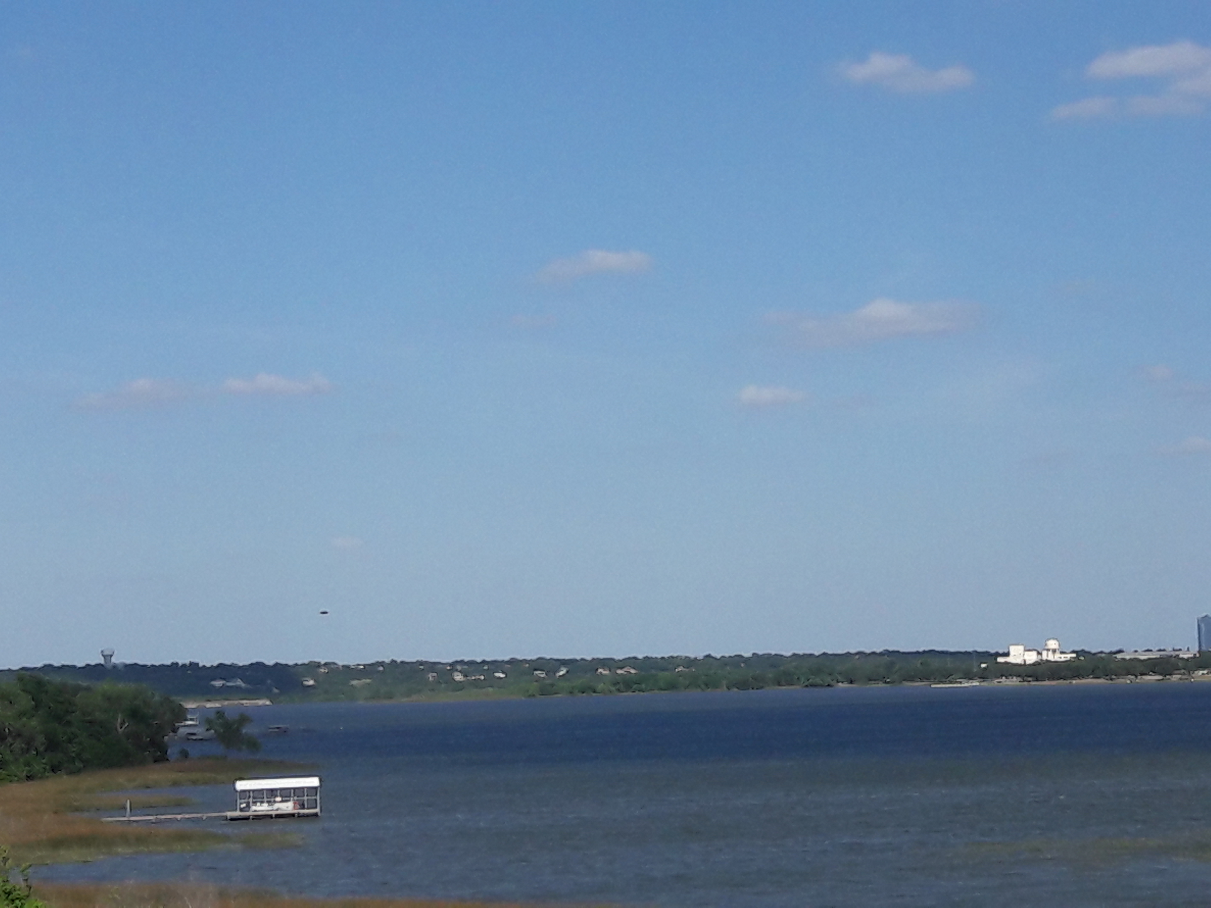 Lake worth Texas pictures from road 2020